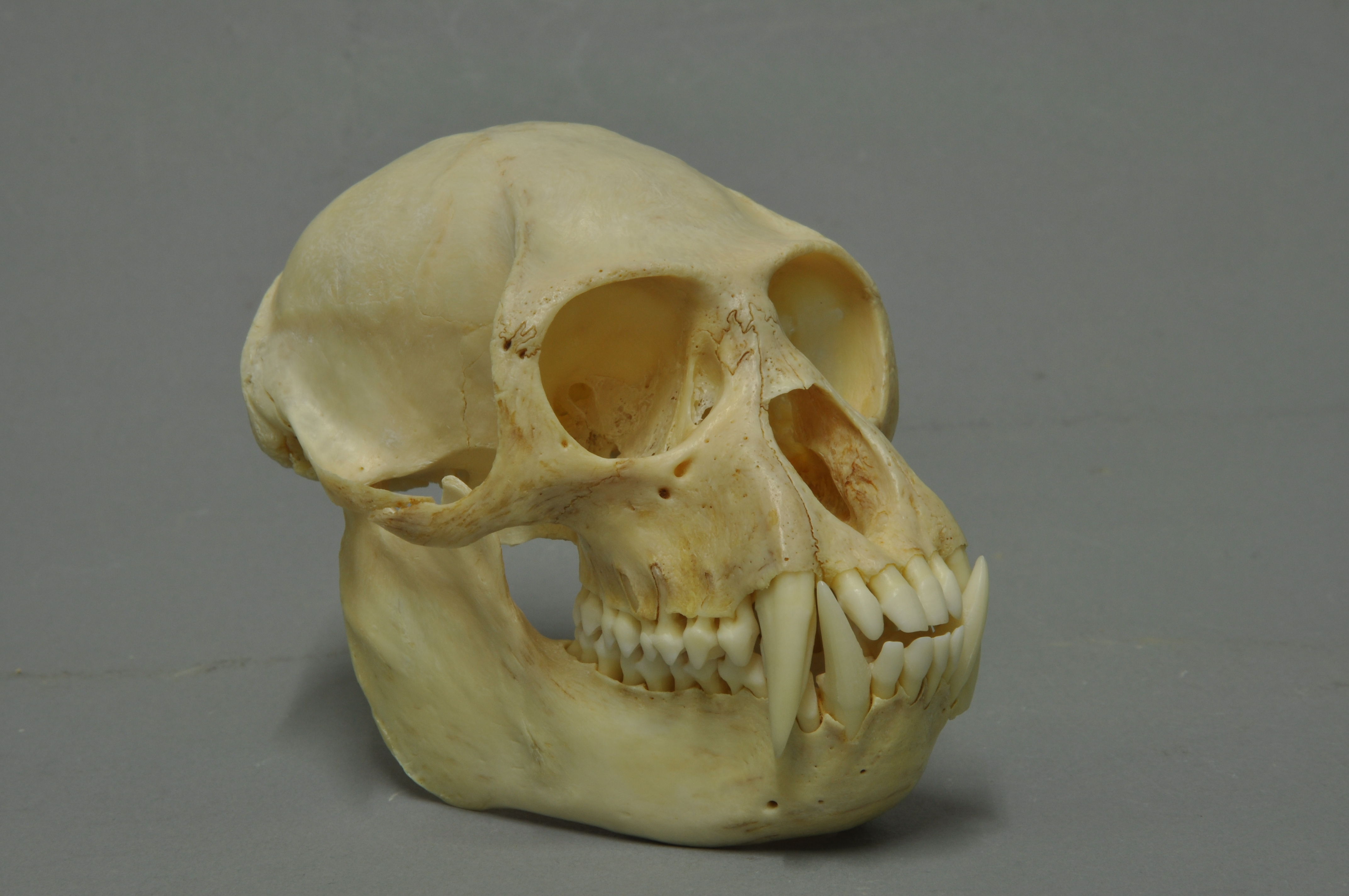 Mantled guereza Colobus guereza, skull, Coll. Museum Wiesbaden